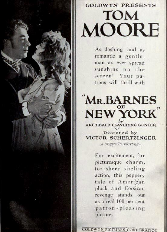 Advertisement for the American drama film Mr. Barnes of New York (1922) with Tom Moore, on page 17 of the February 26, 1921 Exhibitors Herald.